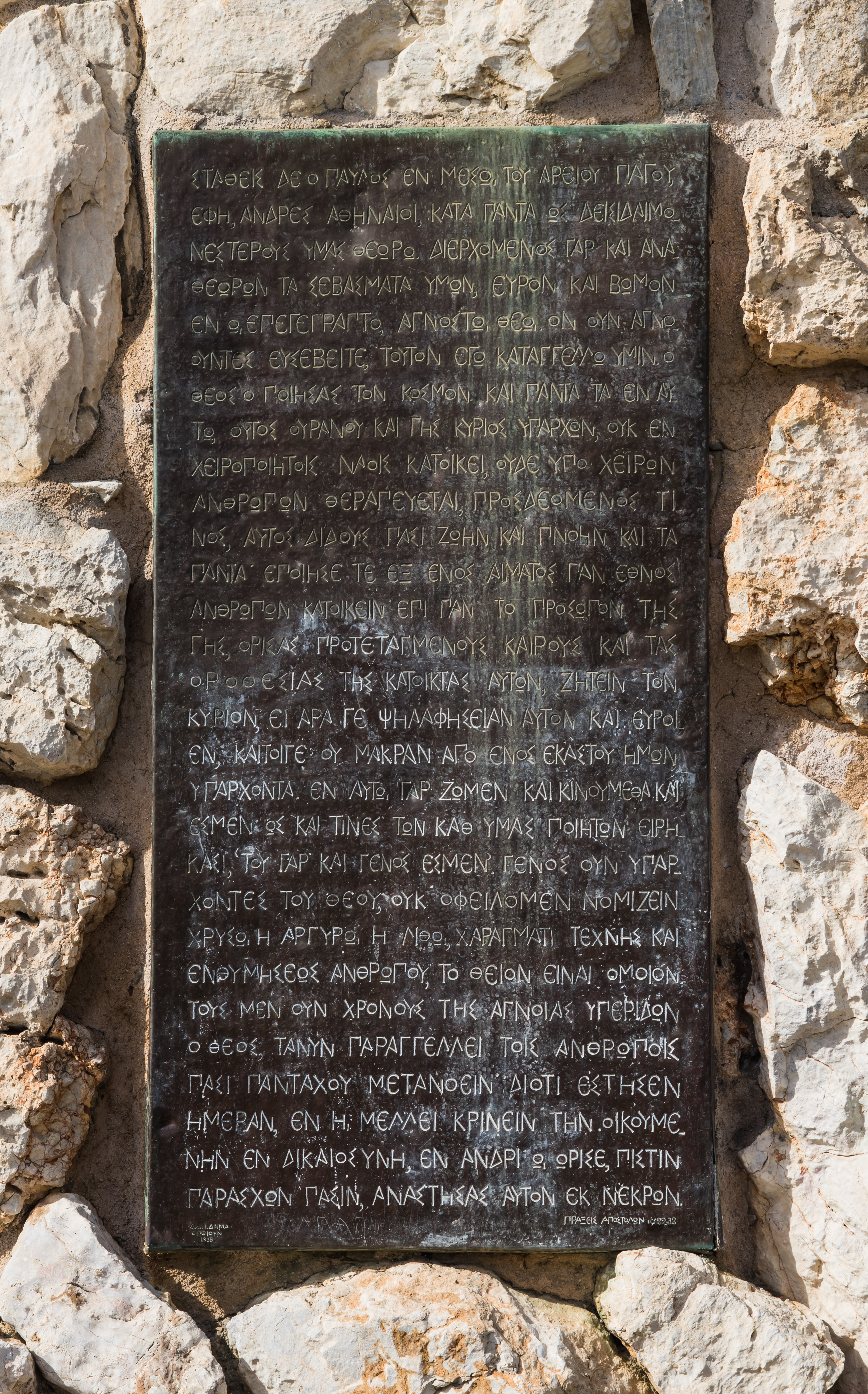 Bronze plaque dedicated to the visit of apostle Paul to the Areopagus. It cites the text of Acts 17:22-32: So Paul, standing in the midst of the Areopagus, said: “Men of Athens, I perceive that in every way you are very religious. ...